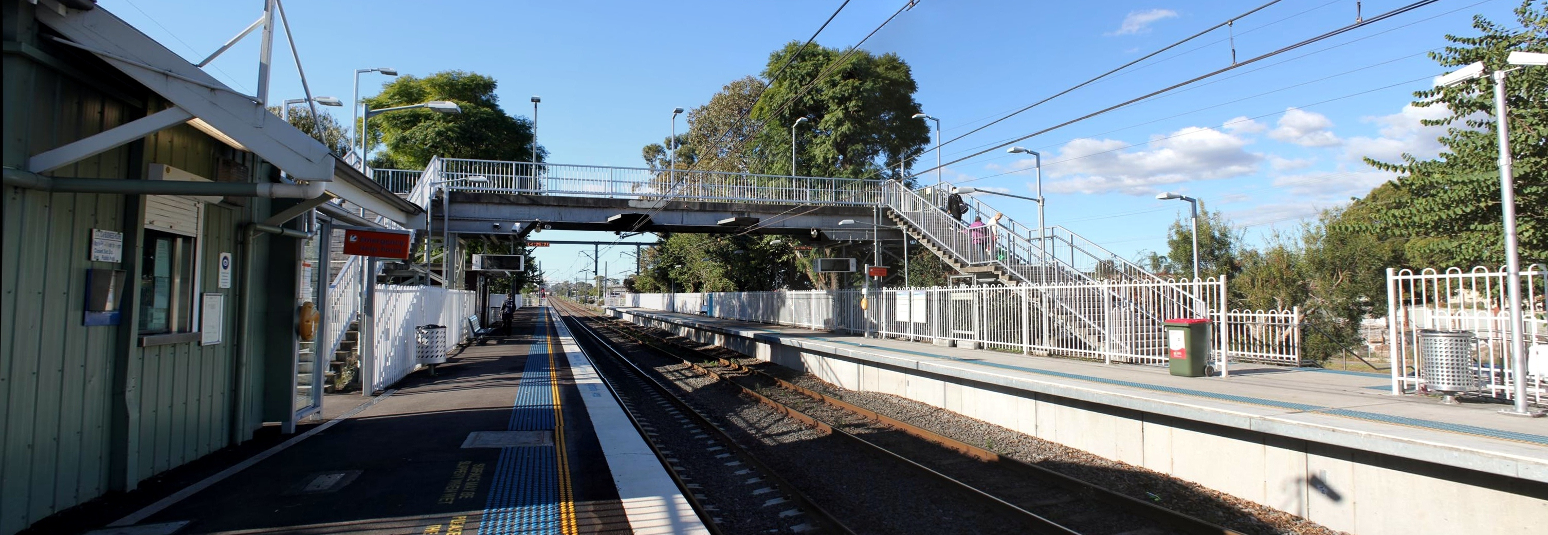 Overview of Platforms and Information office facing north